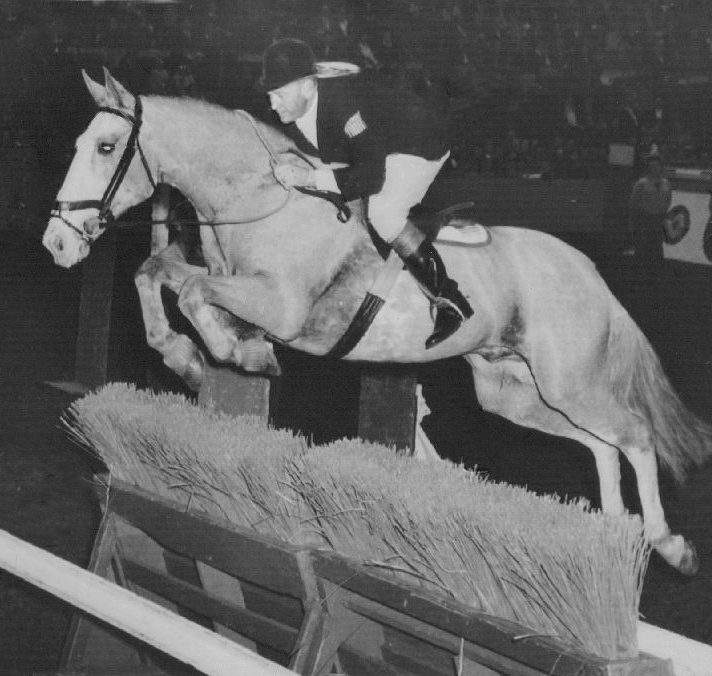 1954 International Horse Show West Point Challenge Arthur McCashin Press Photo